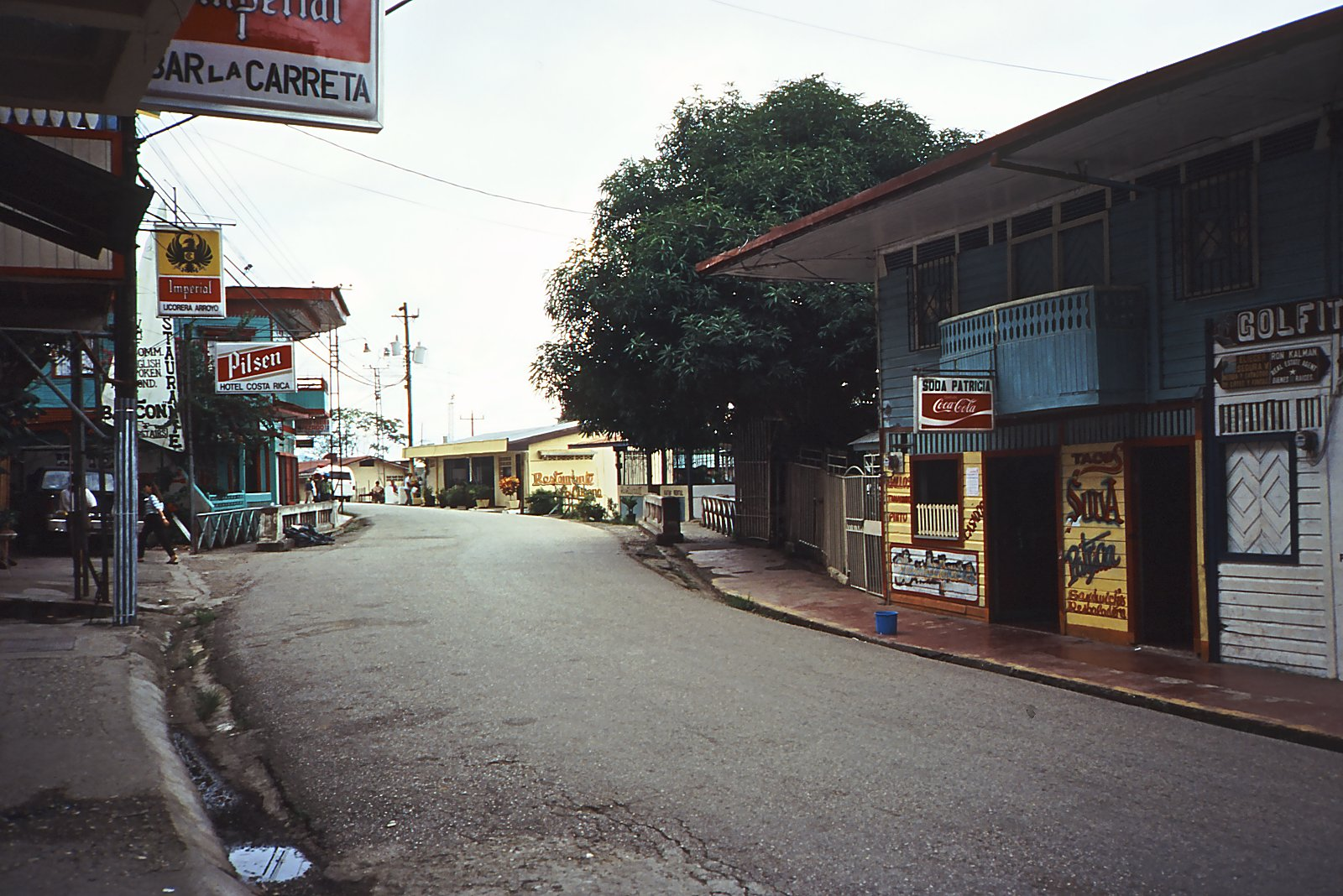 Shopping street (Calle 0A) in Golfito, Puntarenas, Costa Rica